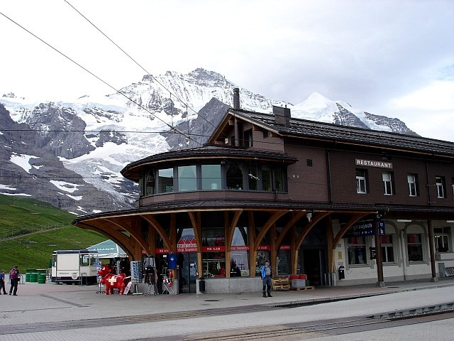 Kleine Scheidegg